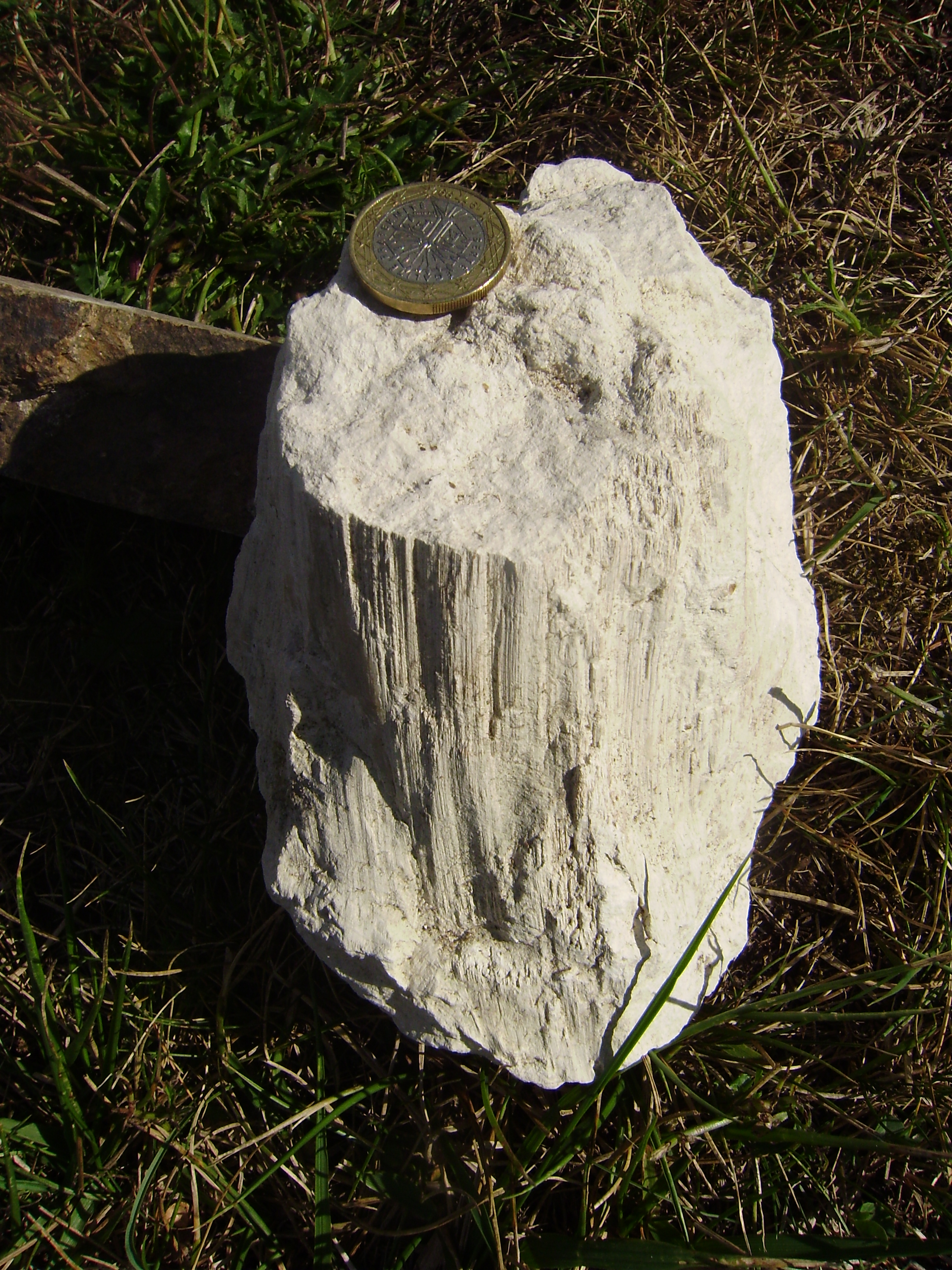 A slickensided pressure cone in Ligerian (Lower Turonian) limestone from the northeastern Aquitaine Basin. Found near Quinsac, Dordogne, France.